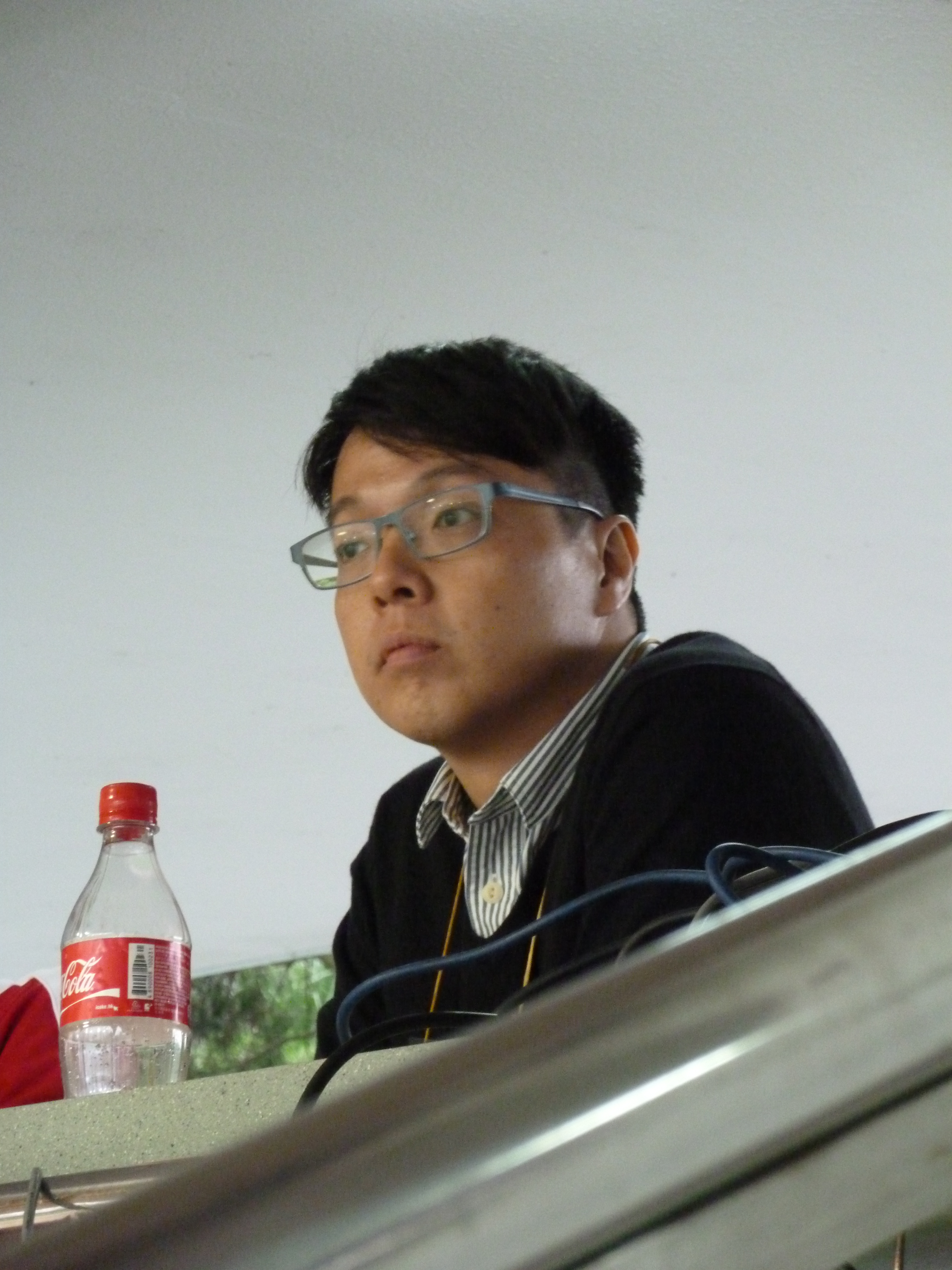 Daniel Chan (31 Mar 2013, Hong Kong First Division League, Tai Po vs Pegasus, Tai Po Sports Ground)中文（香港）: 陳恩能 (31 Mar 2013, 香港甲組足球聯賽, 大埔 vs 飛馬, 大埔運動場)